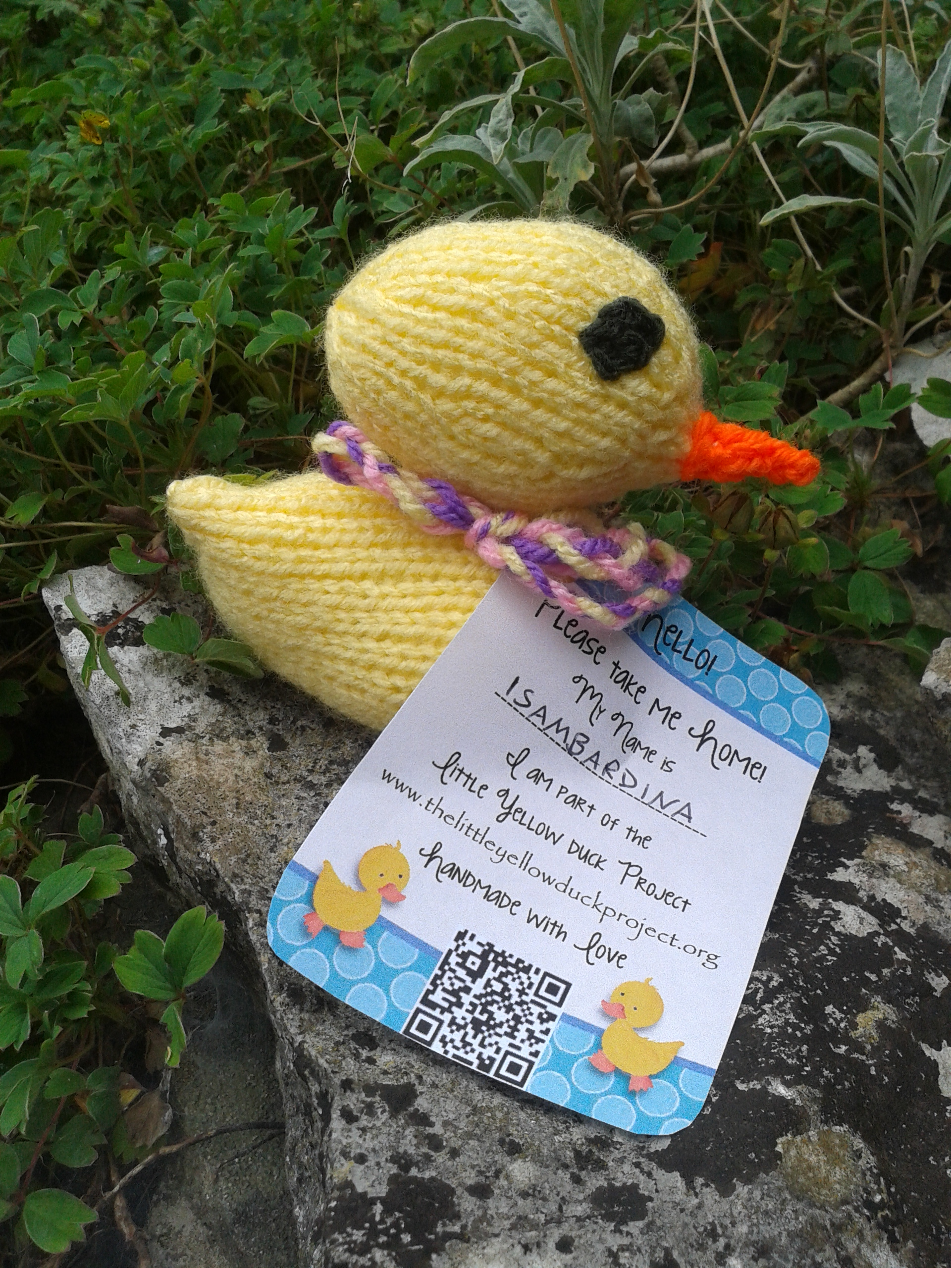 A "Little Yellow Duck" knitted soft toy with a tag from the Little Yellow Duck Project.